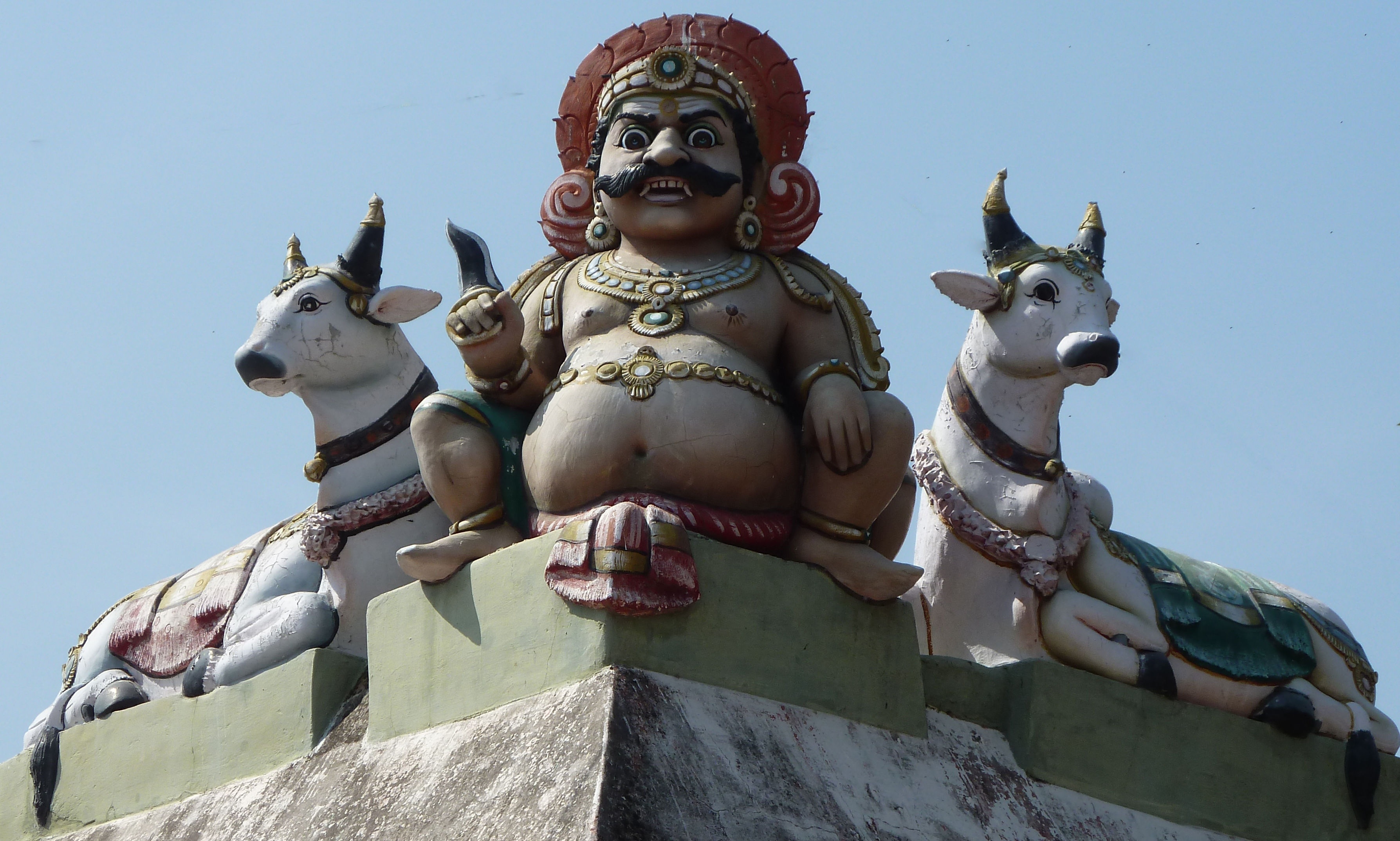 The photo is taken on the compound wall of the temple of Kalyana Pasupatheeswarar temple in Karur, India. These deities are generally found in the temple compound walls and are considered as the gaurds of the temple.